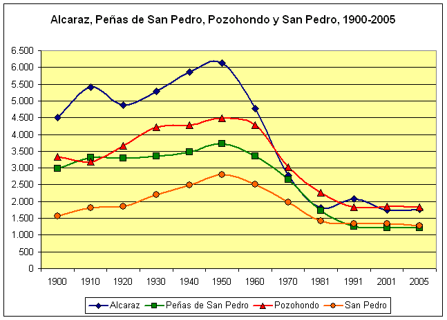 The population of the municipalities of Alcaraz, Peñas de San Pedro, Pozohondo, and San Pedro, in Albacete, Spain, (1900-2005). Own work, given to PD. Source: Instituto Nacional de Estadística.